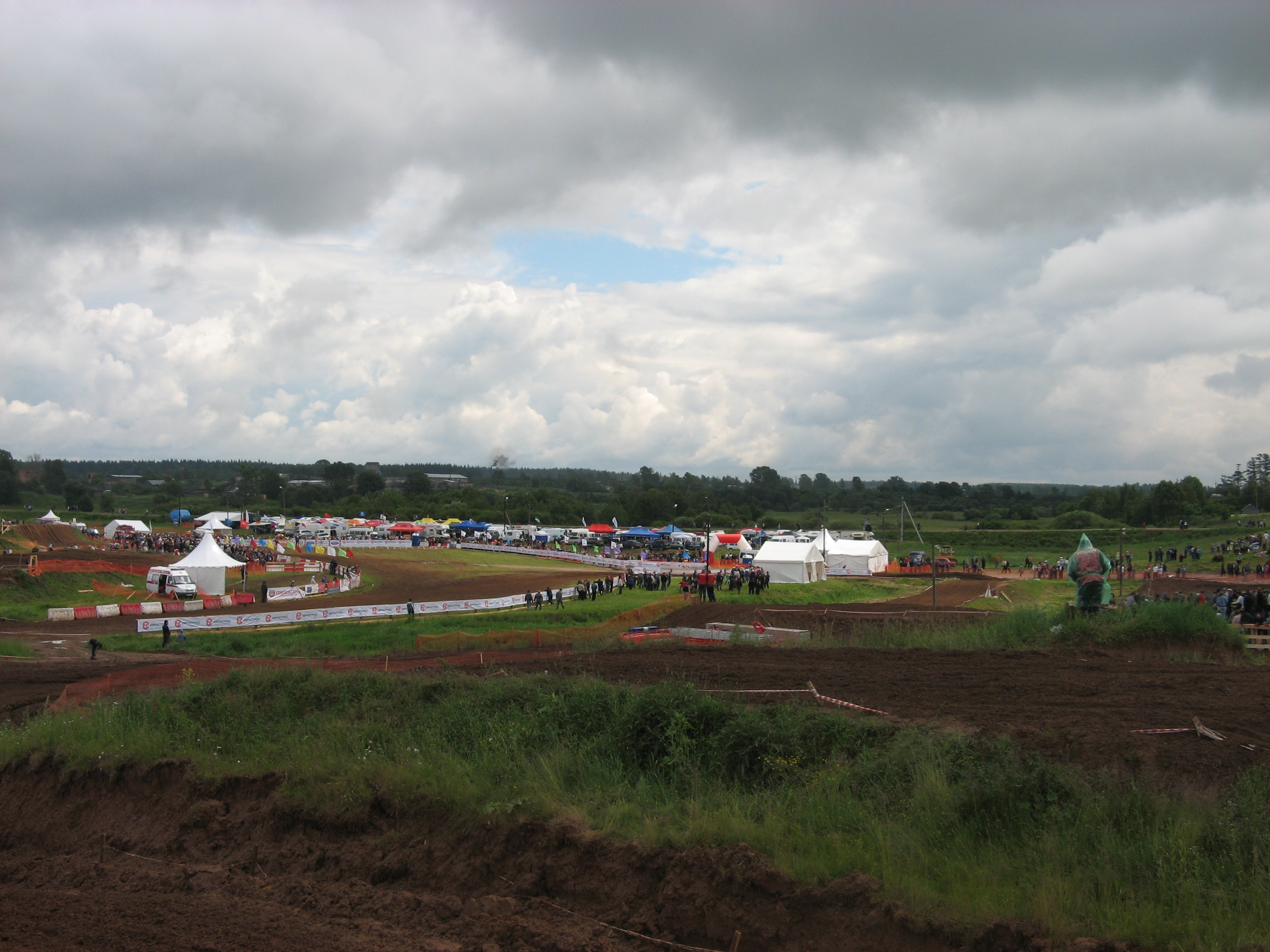 Motocross in Nelidovo